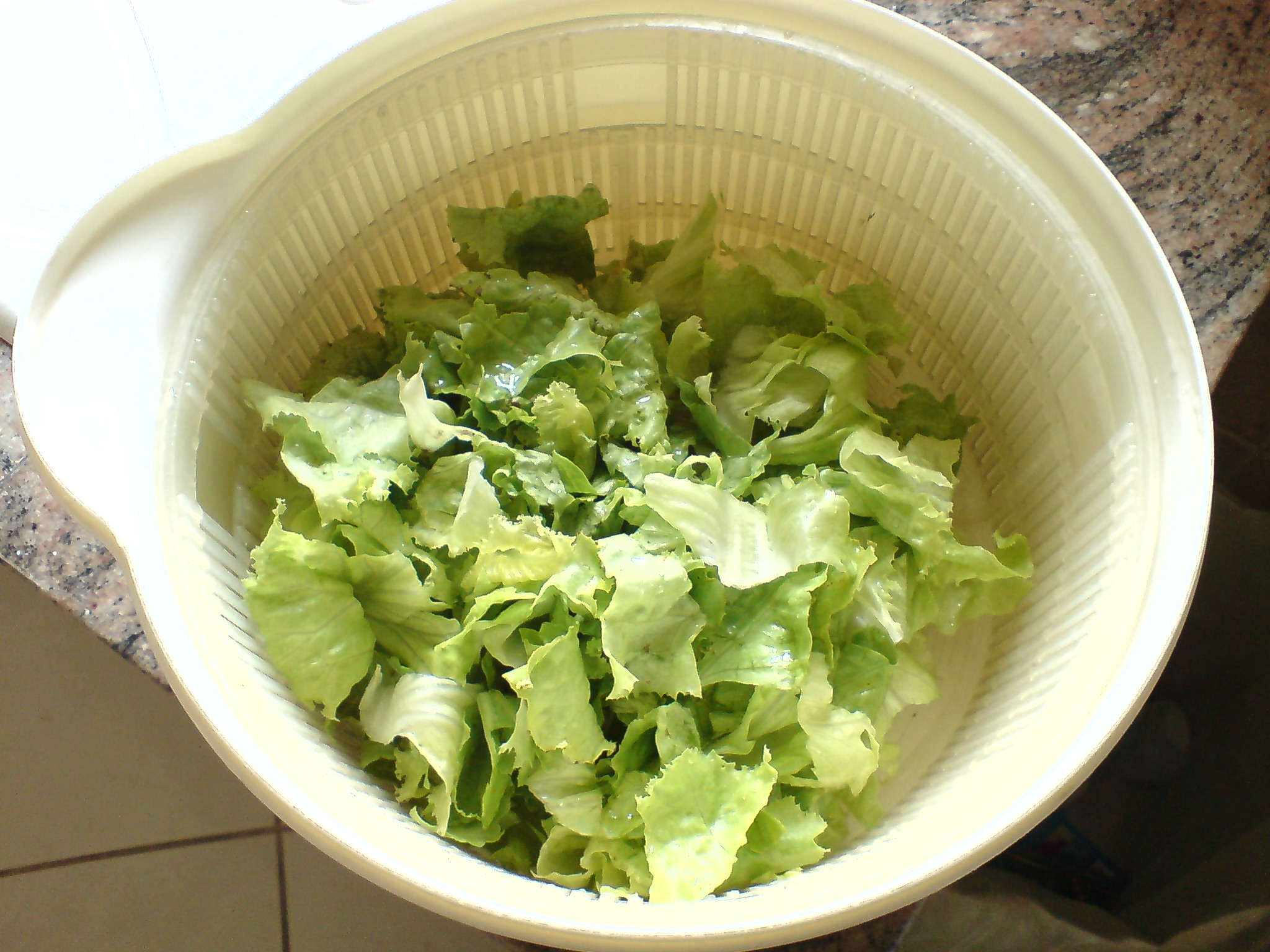 Lettuce Spinner / Dryer